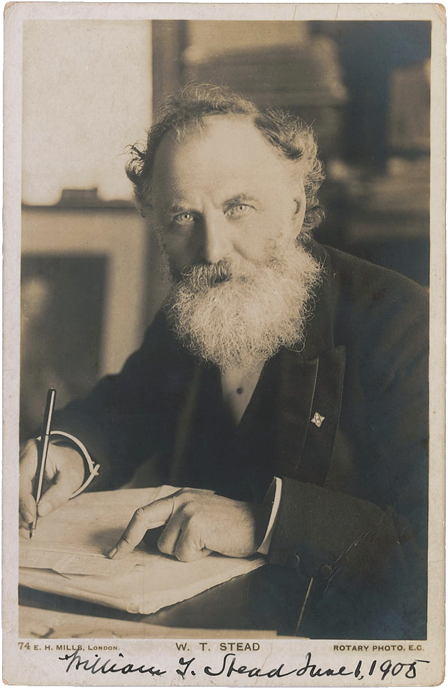 William Thomas Stead